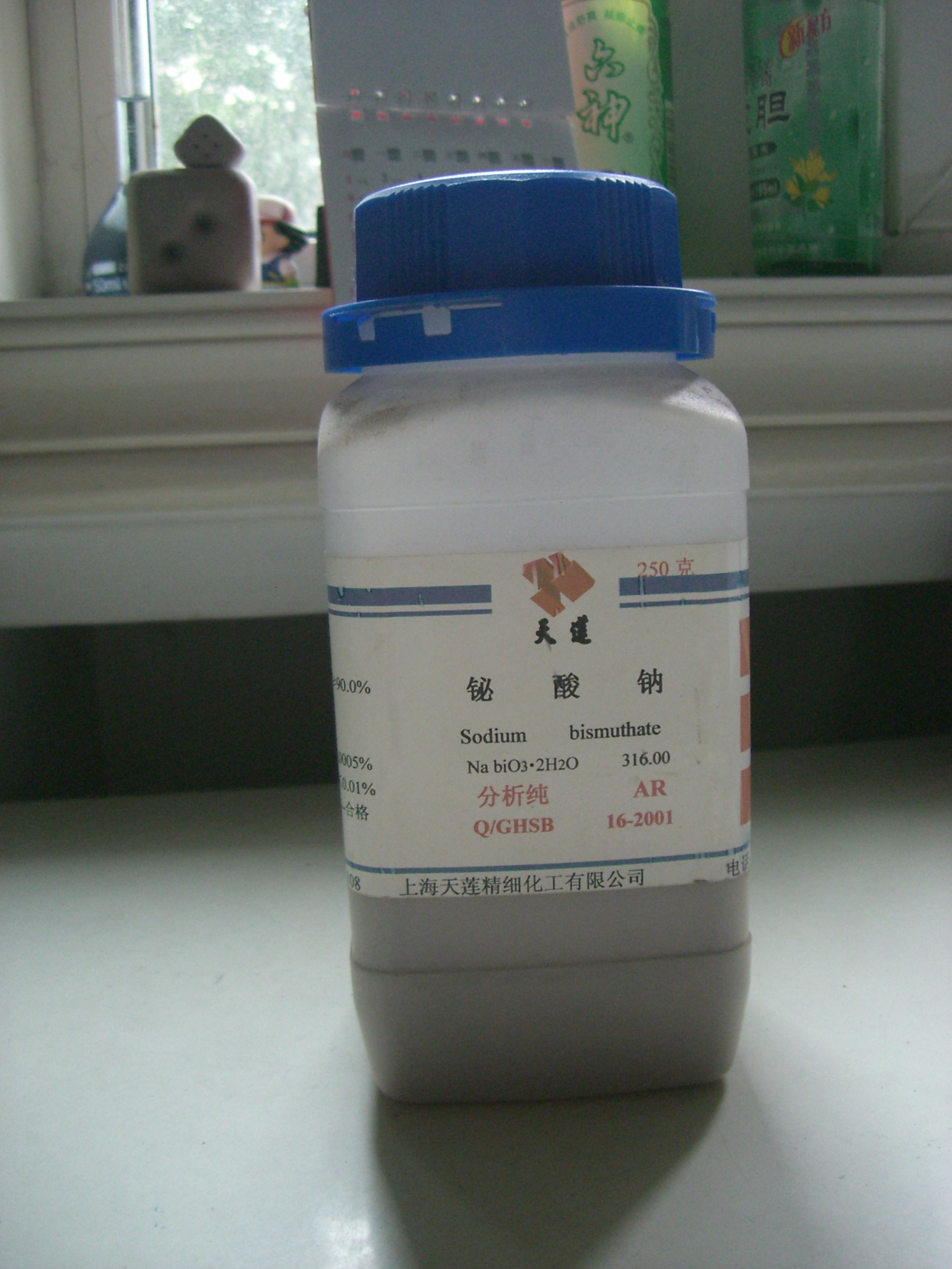 Sodium bismuthate